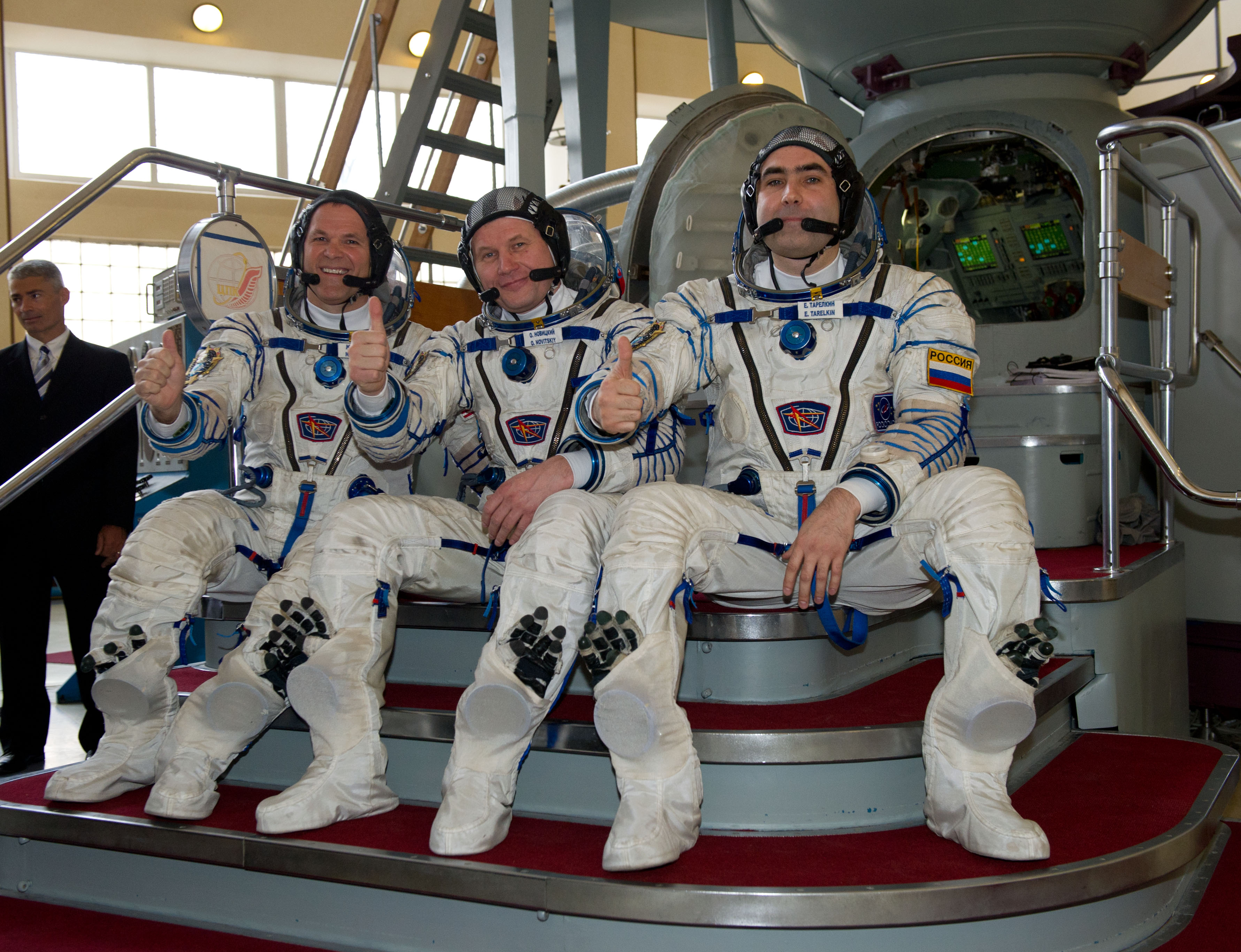 Expedition 31 backup crew members Kevin Ford (left), Oleg Novitskiy and Evgeny Tarelkin (right) give the thumbs up before their final qualification test in preparation for flight, April 23, 2012 at the Gagarin Cosmonaut Training Center in Star City, Russia. Expedition 31 Soyuz Commander Gennady Padalka, Flight Engineers Joe Acaba and Sergei Revin practiced similar scenarios nearby in advance of their final approval for launch to the International Space Station, scheduled for May 15, 2012.